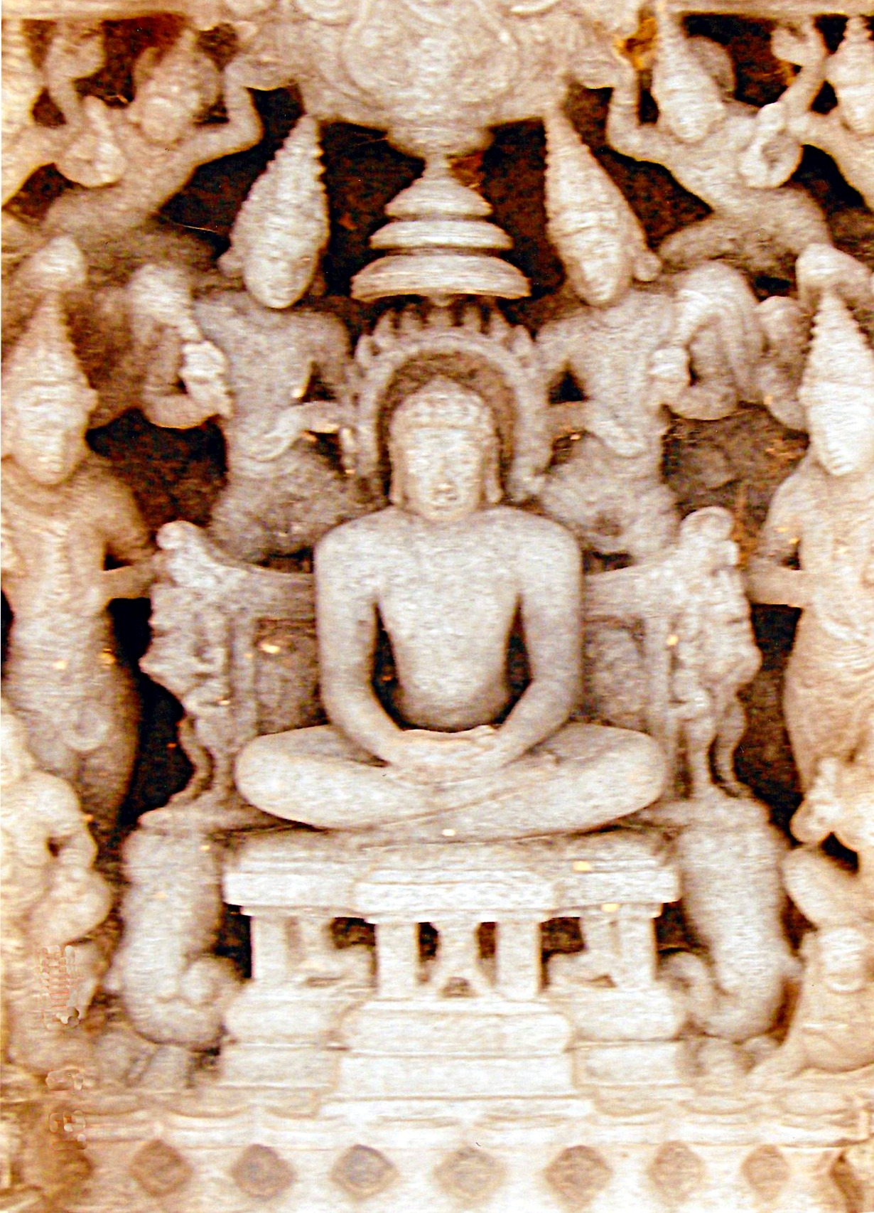 Photograph of Panchakuta Basadi, Kambadahalli, Mandya district, Karnataka, India